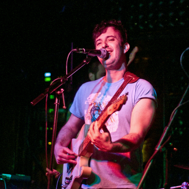 Harper Simon performing in San Diego, December 7, 2009